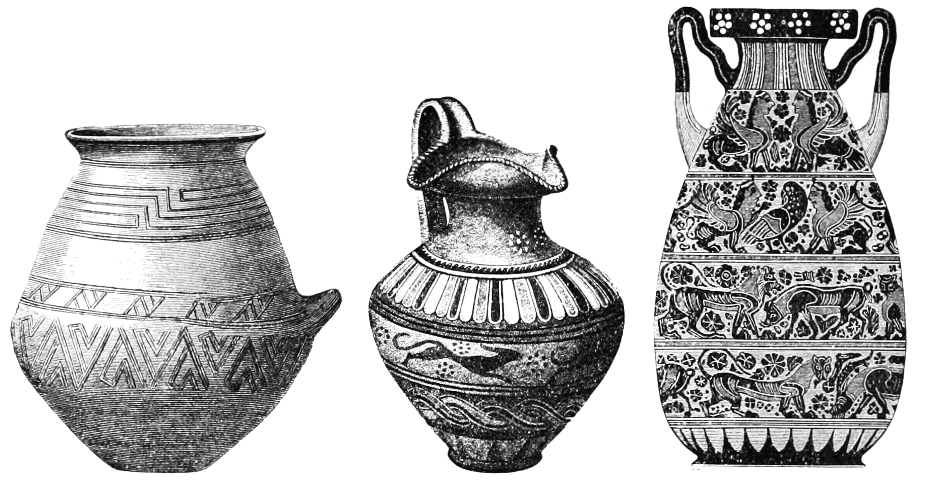 Three ages of Etruscan vases